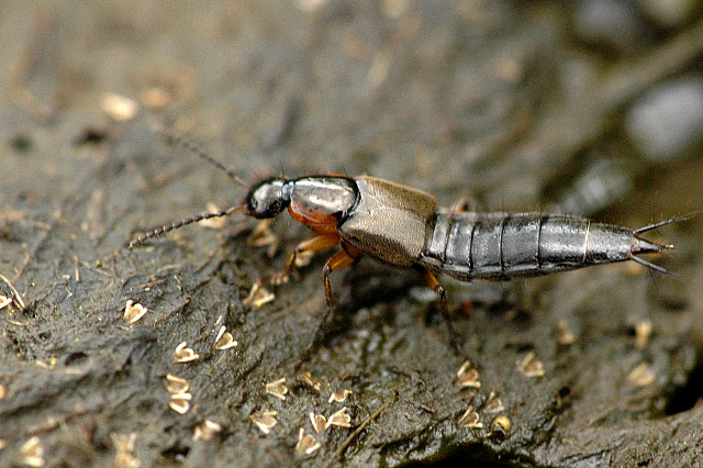 Philonthus marginatus from Commanster, Belgian High Ardennes .